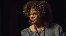 Julie Dash